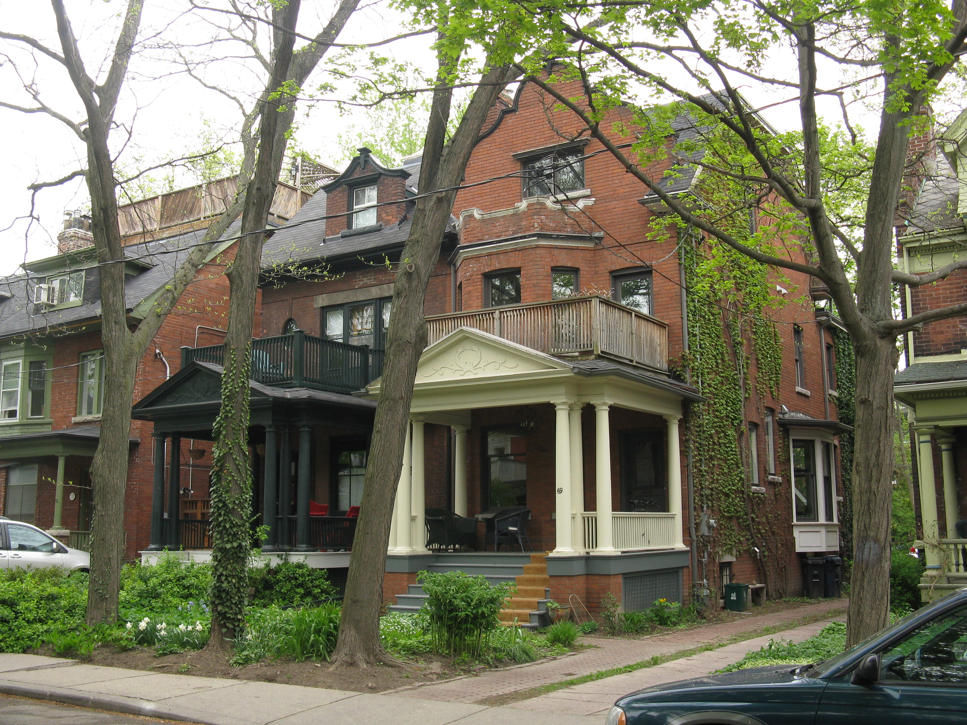 Home of Jane Jacobs, urban writer and activist, at 69 Albany Avenue, Toronto, ON